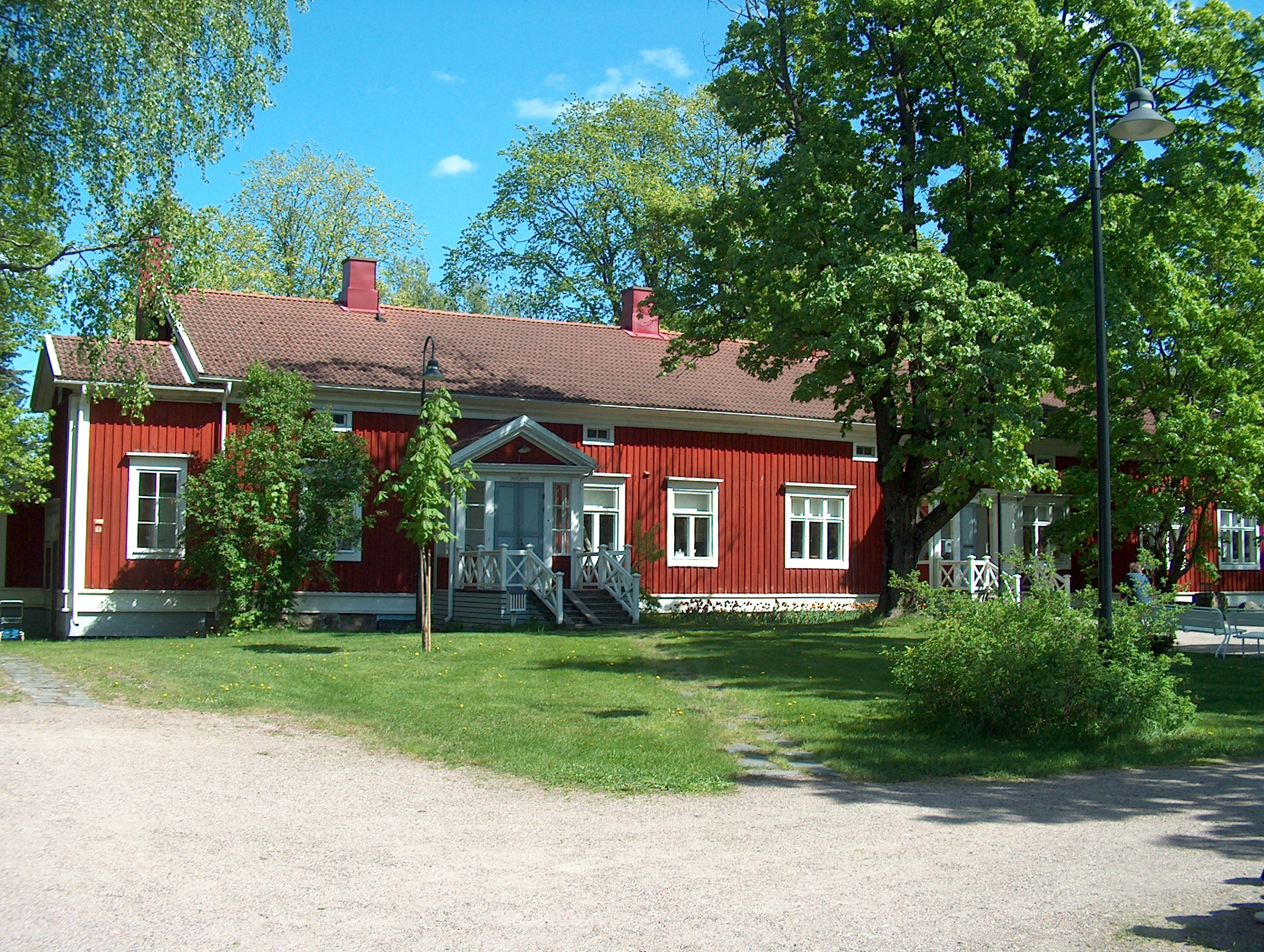 Historical Museum of Riihimäki